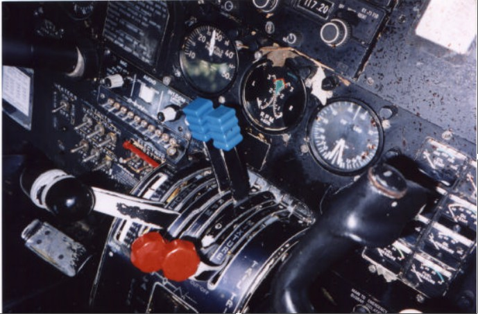 Throttle, lever and mixture setting of Dirgantara Flight 3130